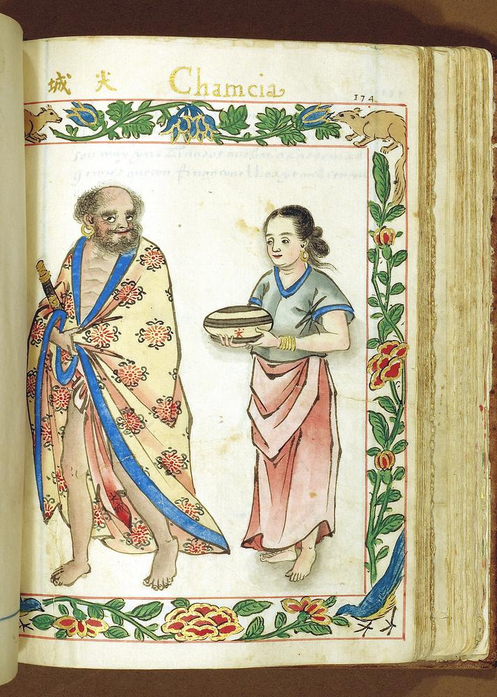 "尖城 Chamcia" - Couple from Champa - Boxer Codex (1590) Observed by the Colonial Spanish Authorities in Manila, Philippines around 1590 AD